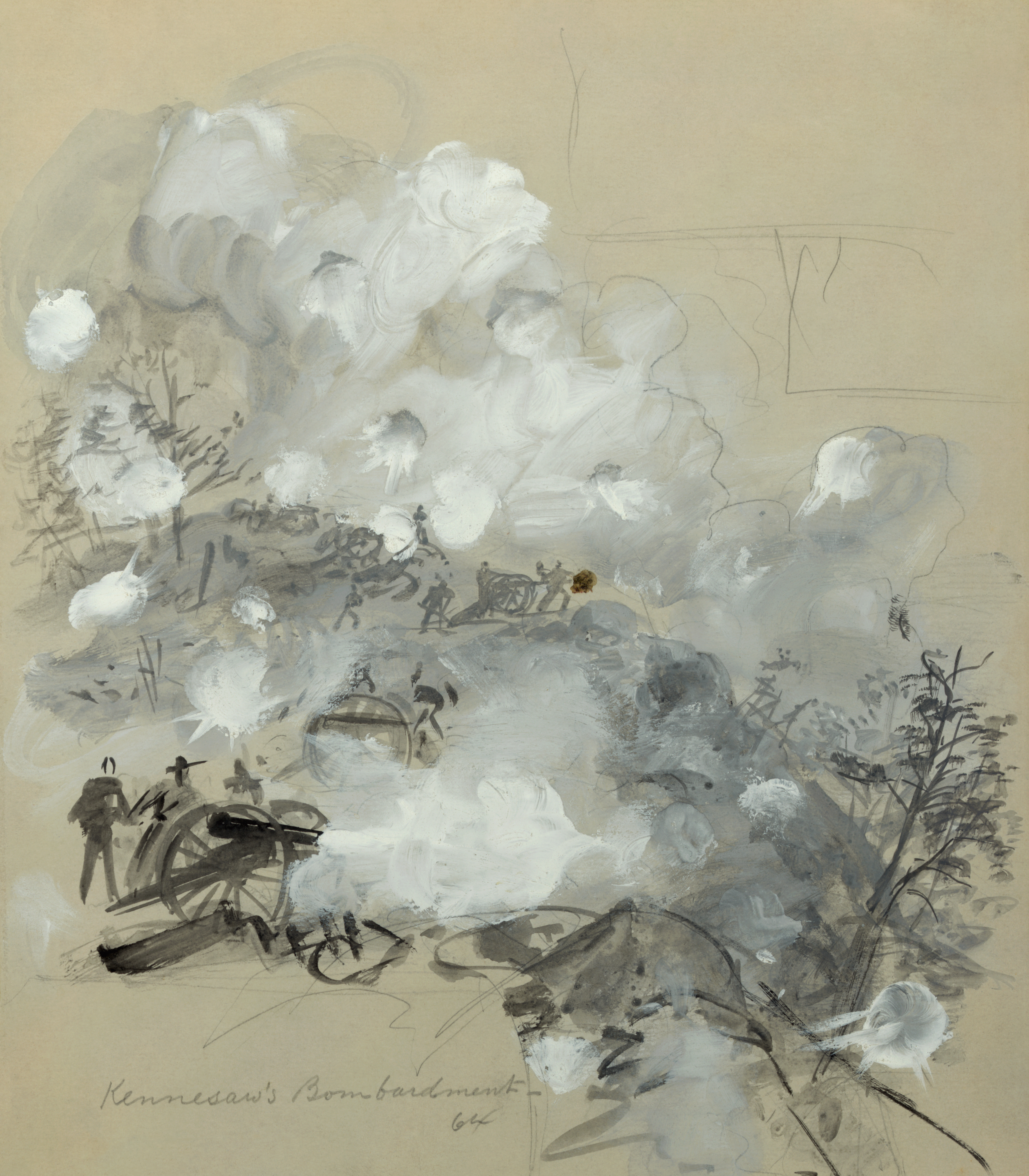 "Kennesaw's Bombardment, 64" "1 drawing on light gray paper : pencil, Chinese white, and black ink wash" Digitized from original.